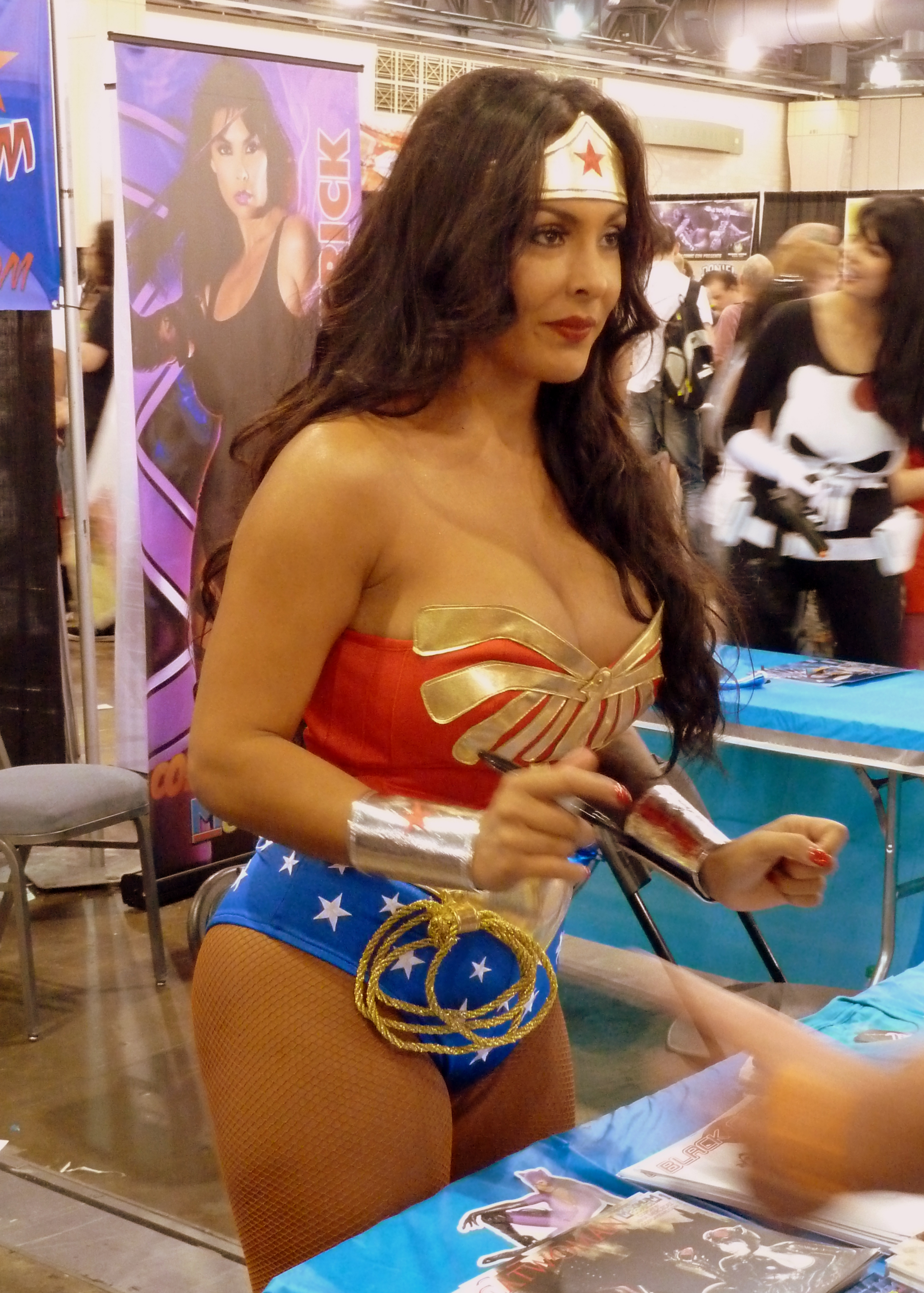 Wizard World Philadelphia 2013